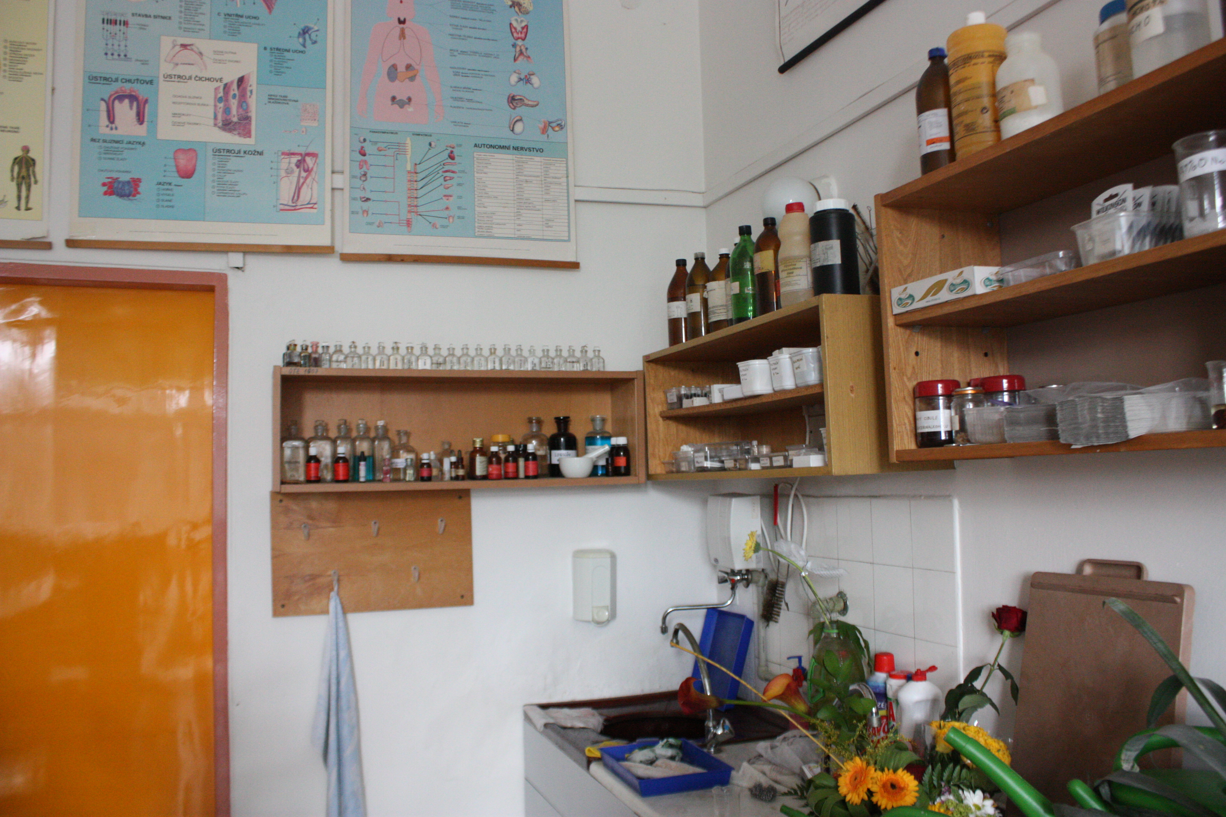 Gymnázium Brno-Řečkovice, biology laboratory